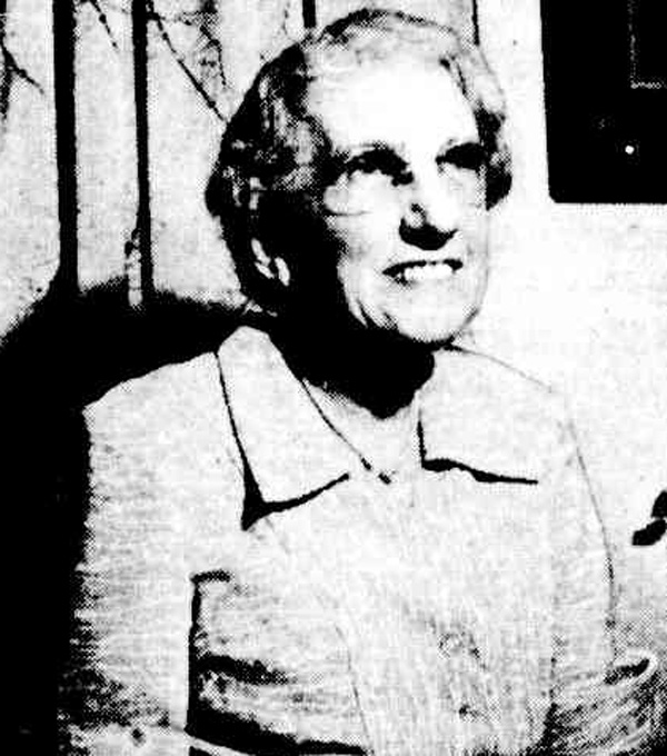 Mrs Elizabeth Chifley, wife of Ben Chifley, a former Australian Prime Minister.